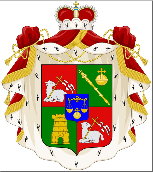 Coat of arms of princes Anchabadze